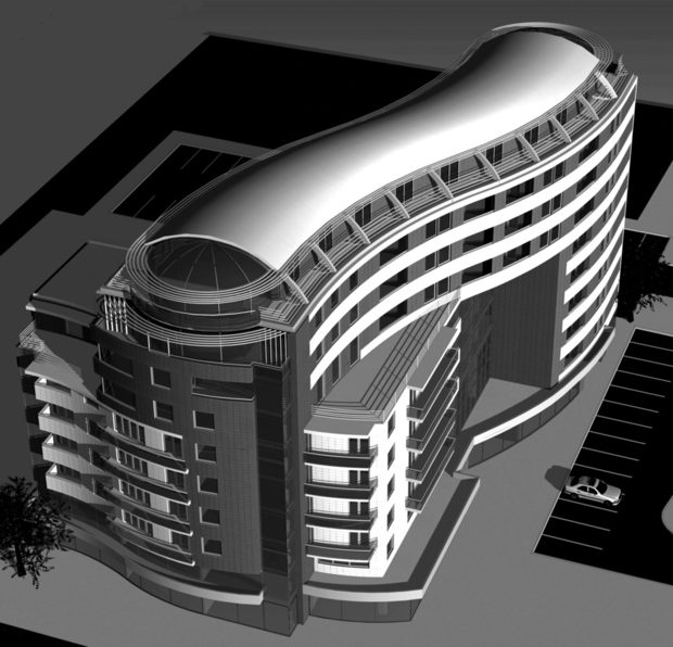 Многофункционална сграда „Мастерфикс” София